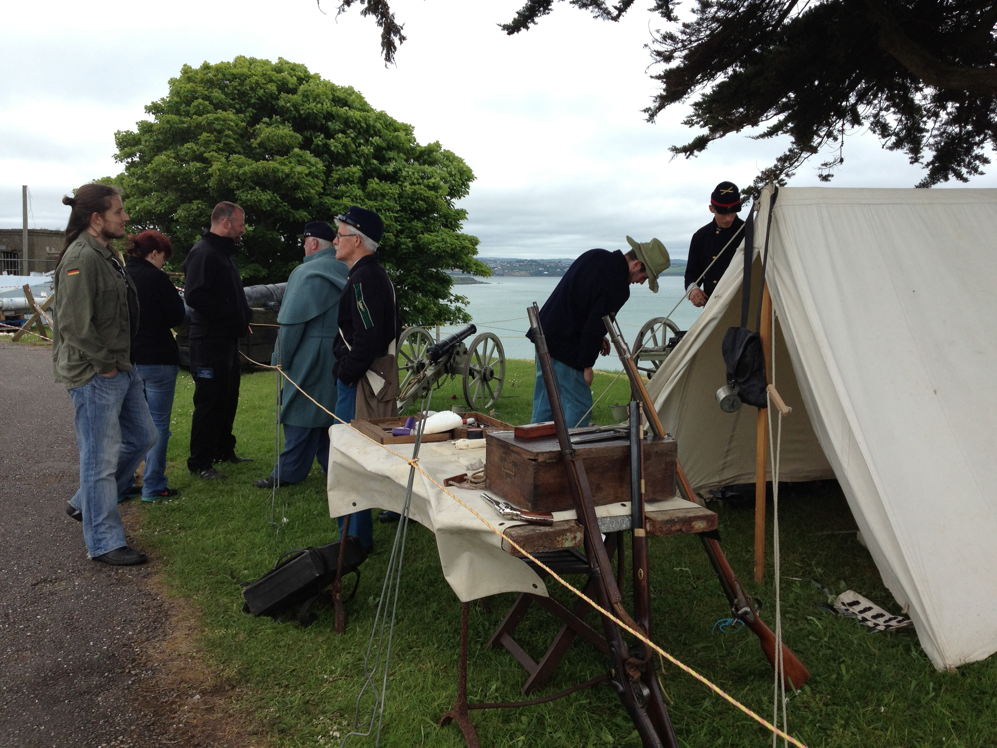 Camden Fort Meagher, close to Crosshaven, County Cork, Ireland (Reenactors on parade square)